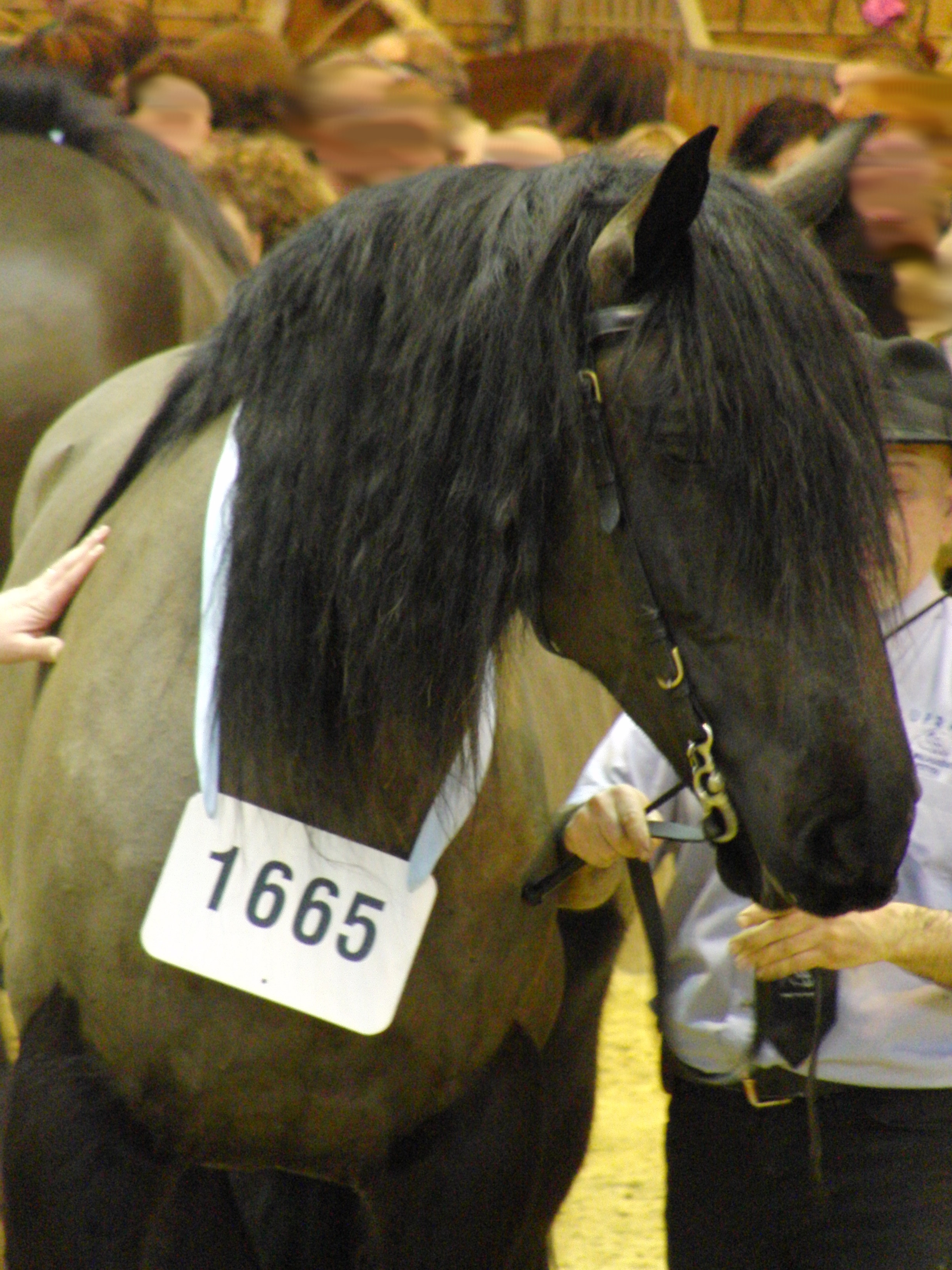 Poitevin Mulassier stallion's head during a show - Paris International Agricultural Show 2012, Paris, France